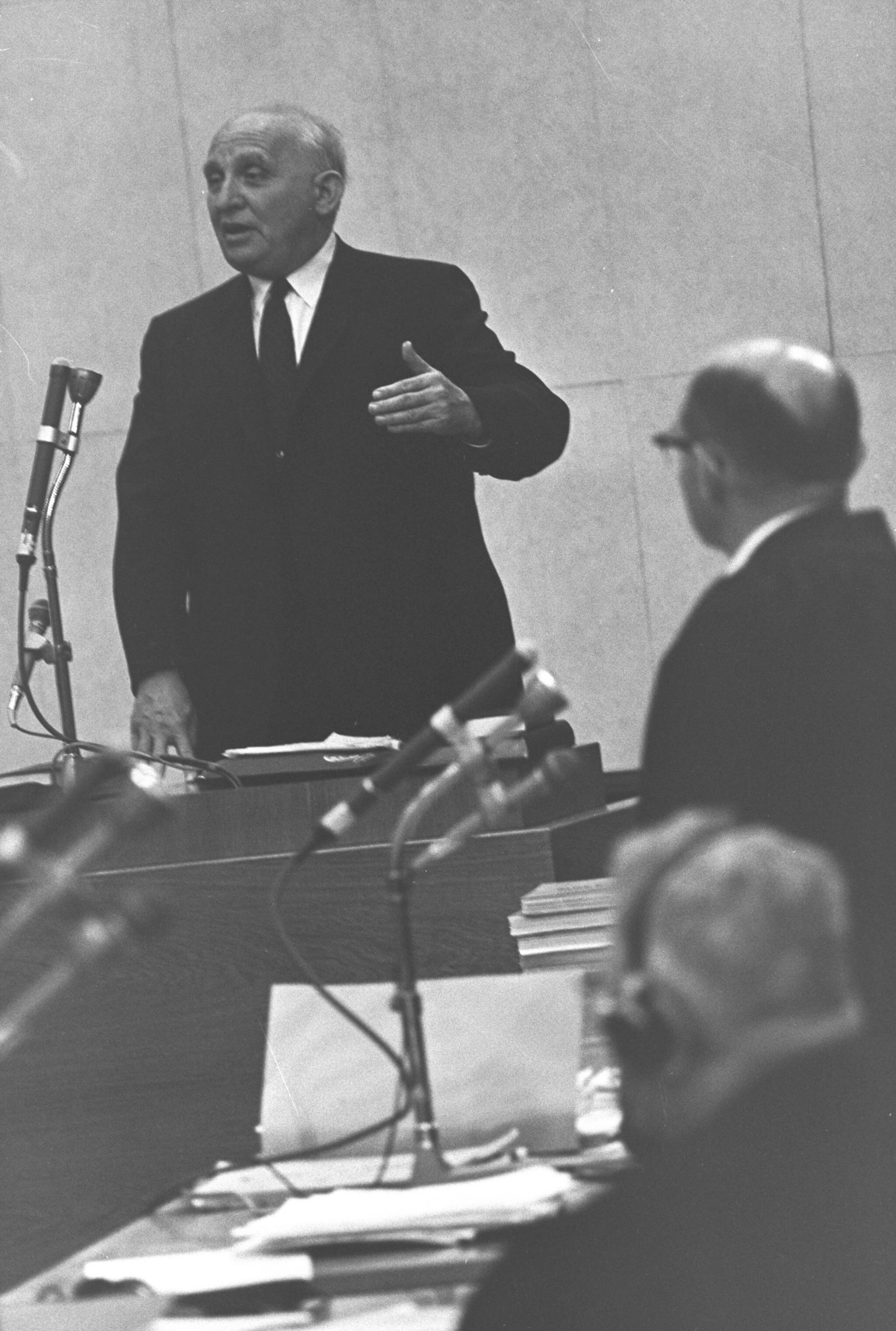 Prof. Salo Wittmayer Baron testifying at Adolf Eichman's trial in Jerusalem, 1961